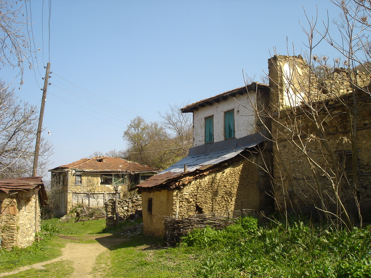 village of Beleshtevica, near Veles, Macedonia